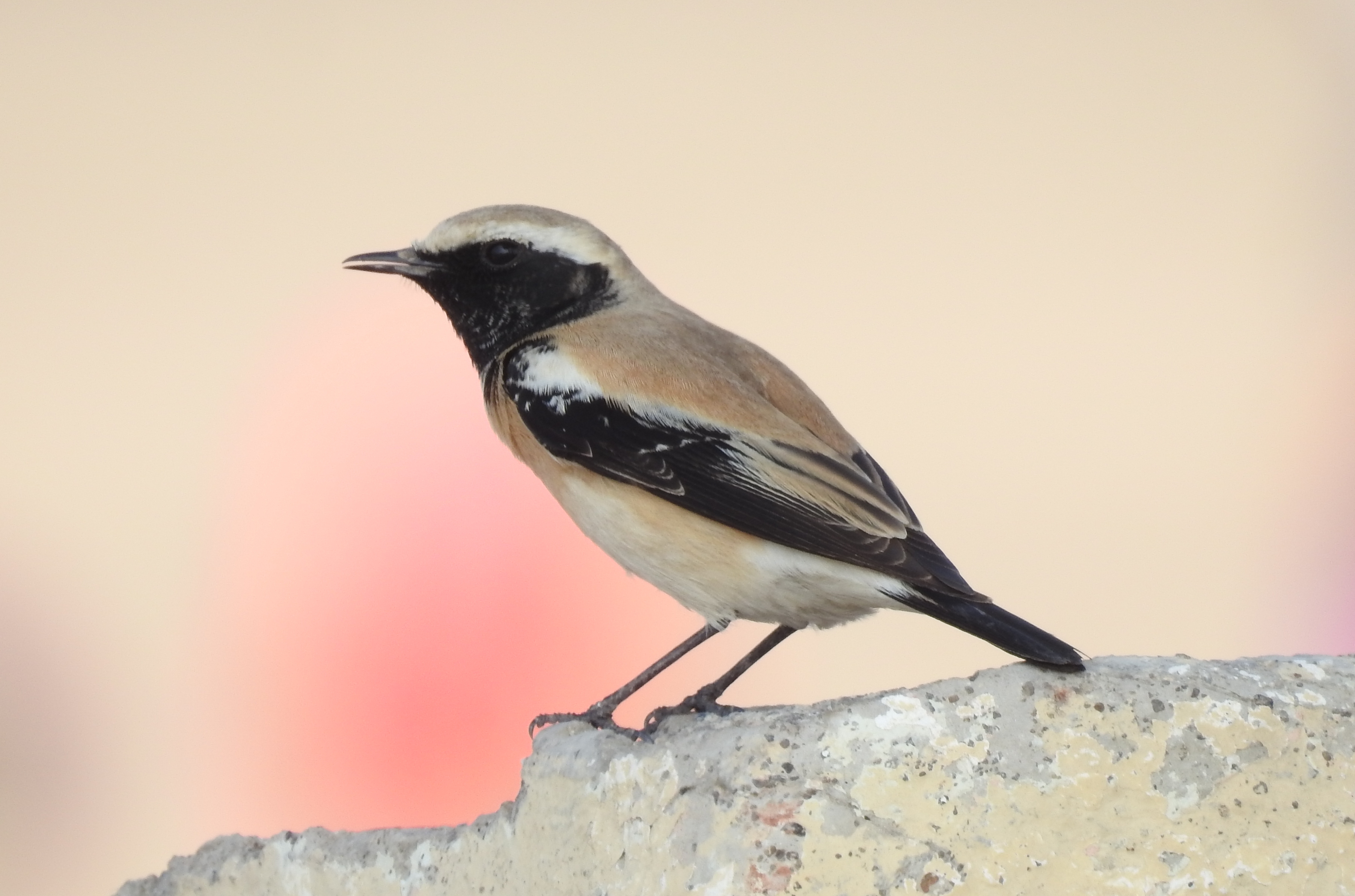 Desert Wheatear Oenanthe deserti. Photographed by Dr. Raju Kasambe at Khijadiya Bird Sanctuary, Jamnagar, Gujarat, India.